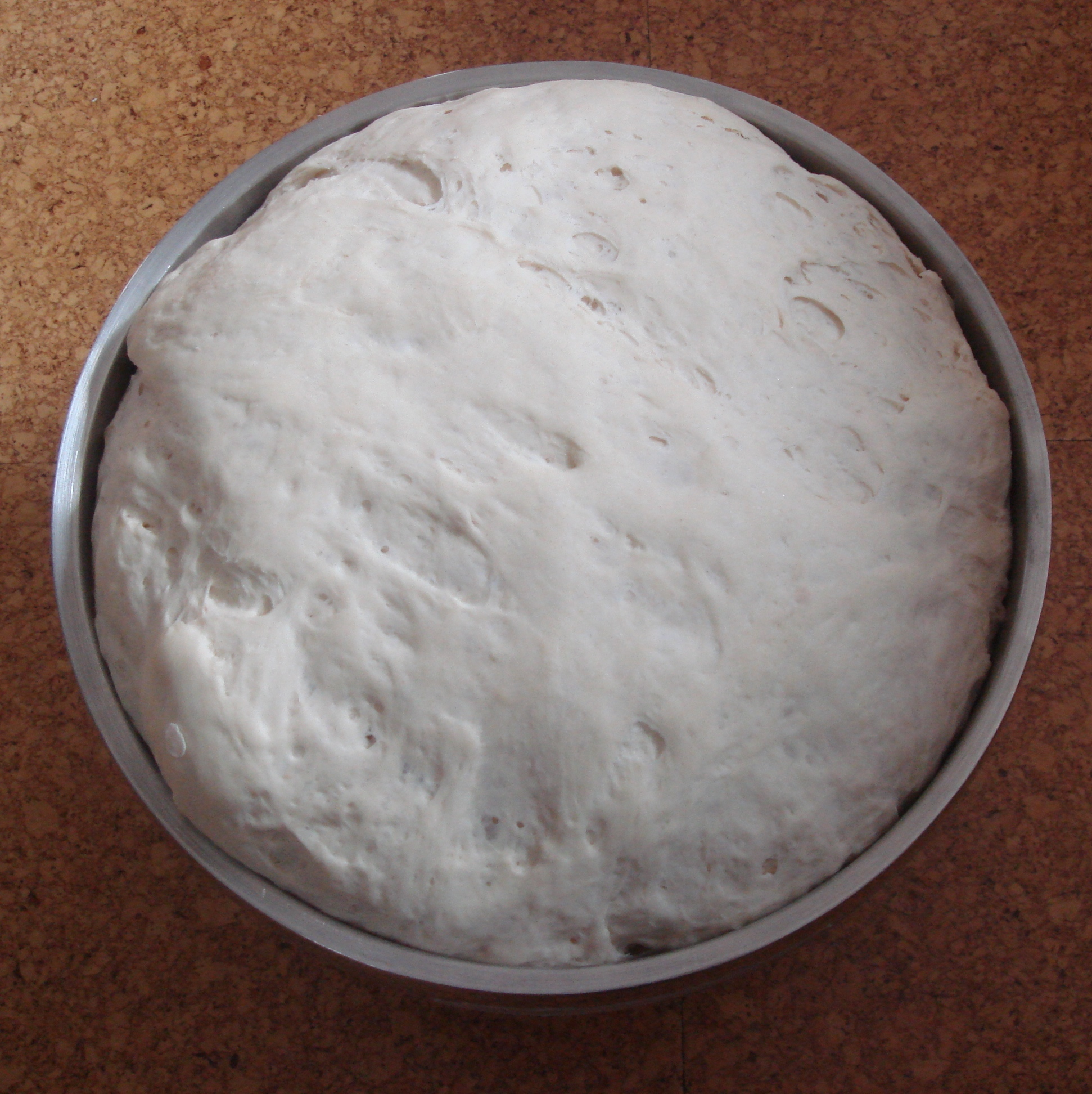 Yeast bread dough after proving for 40 minutes